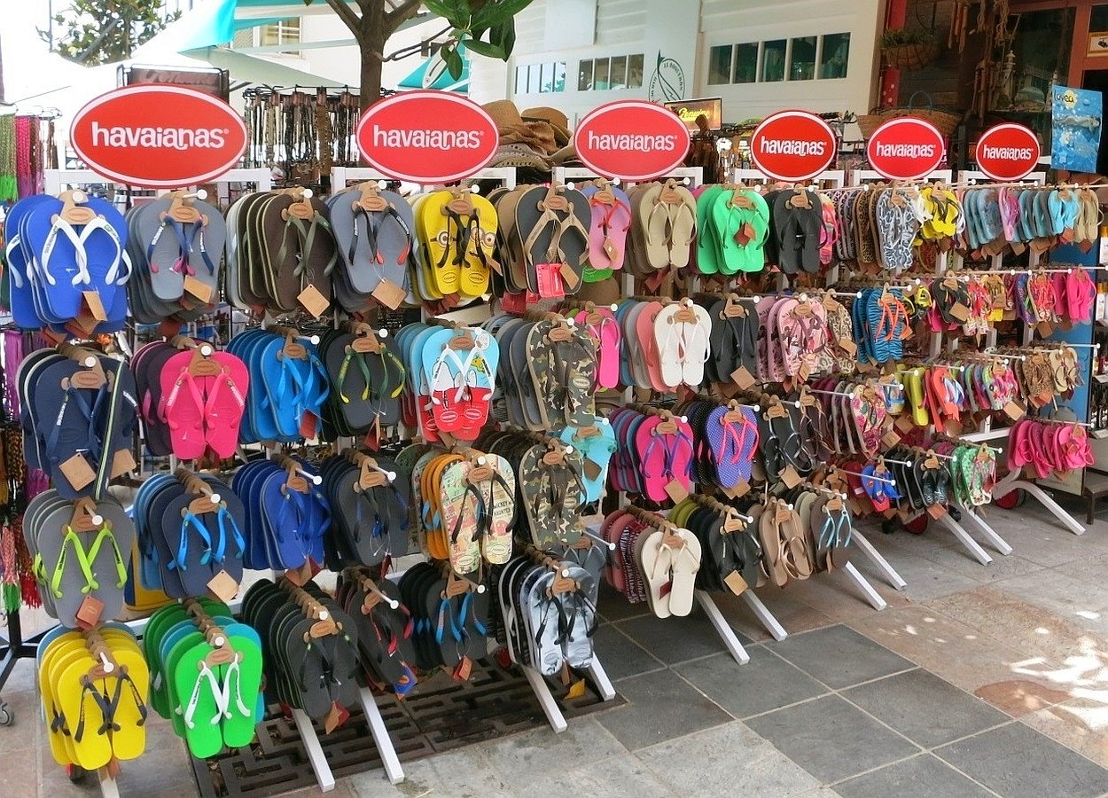 Wide selection of flip-flop sandals in shop near beach (Costa del Sol, Spain)